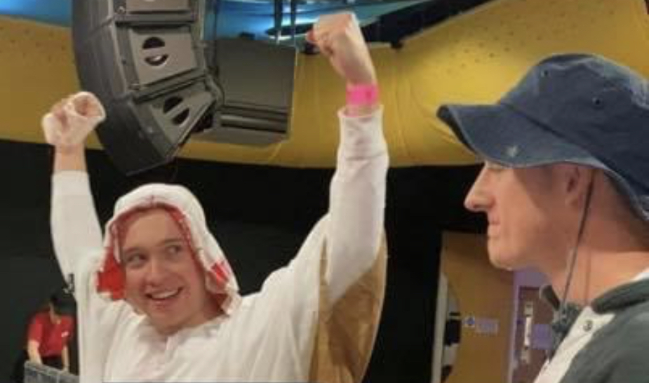 Will Hood after defeating the previous year's champion, James Watters.